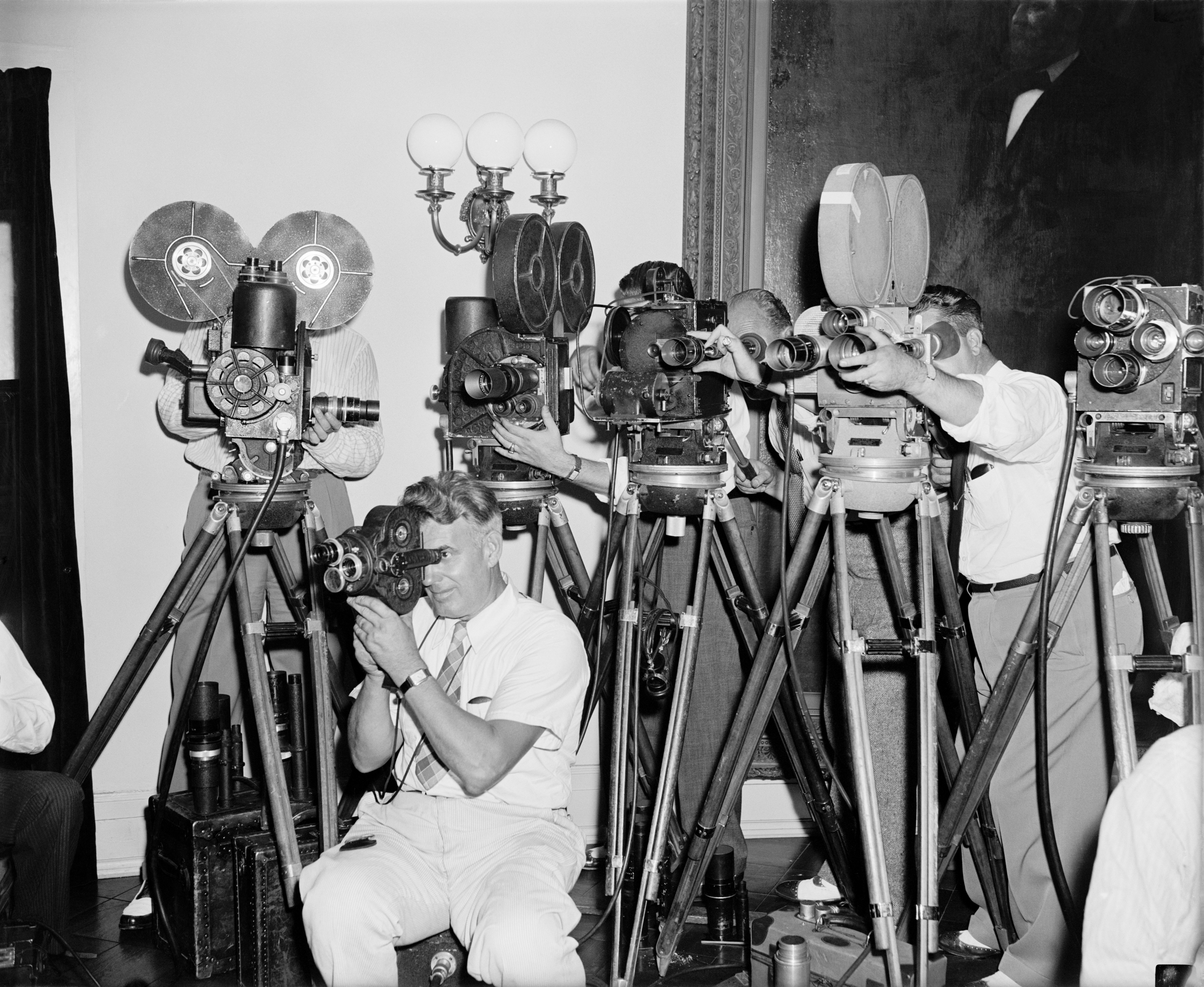 Photograph of the newsreel press at a national address by Franklin D. Roosevelt at the White House, Washington, D.C.The Library of Congress writes, "Photo probably taken for FDR's 1939 fireside chat on the invasion of Poland … Date based on date of negatives in same range." The only fireside chat of 1939 was the address of September 3, 1939.